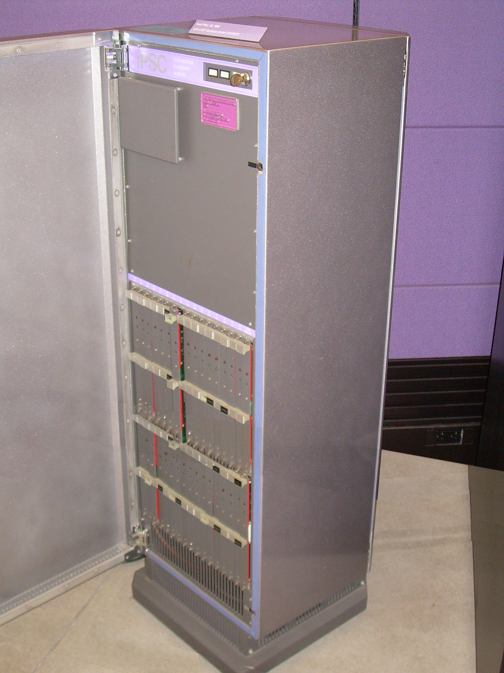 Intel iPSC/1 (1985) - Computer History Museum (2007-11-10 22.58.31 by Carlo Nardone)